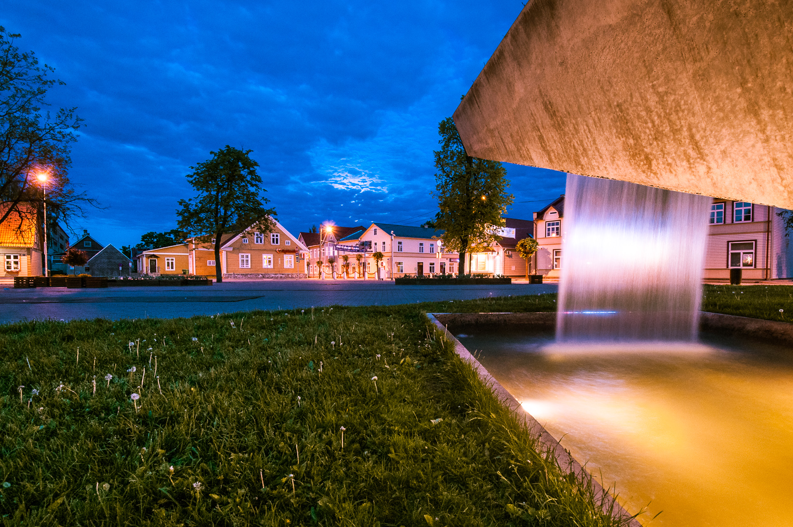 Võru city centre at night